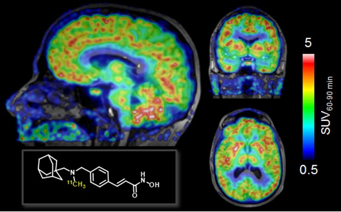 First-in-human MR-PET image of [11C]Martinostat